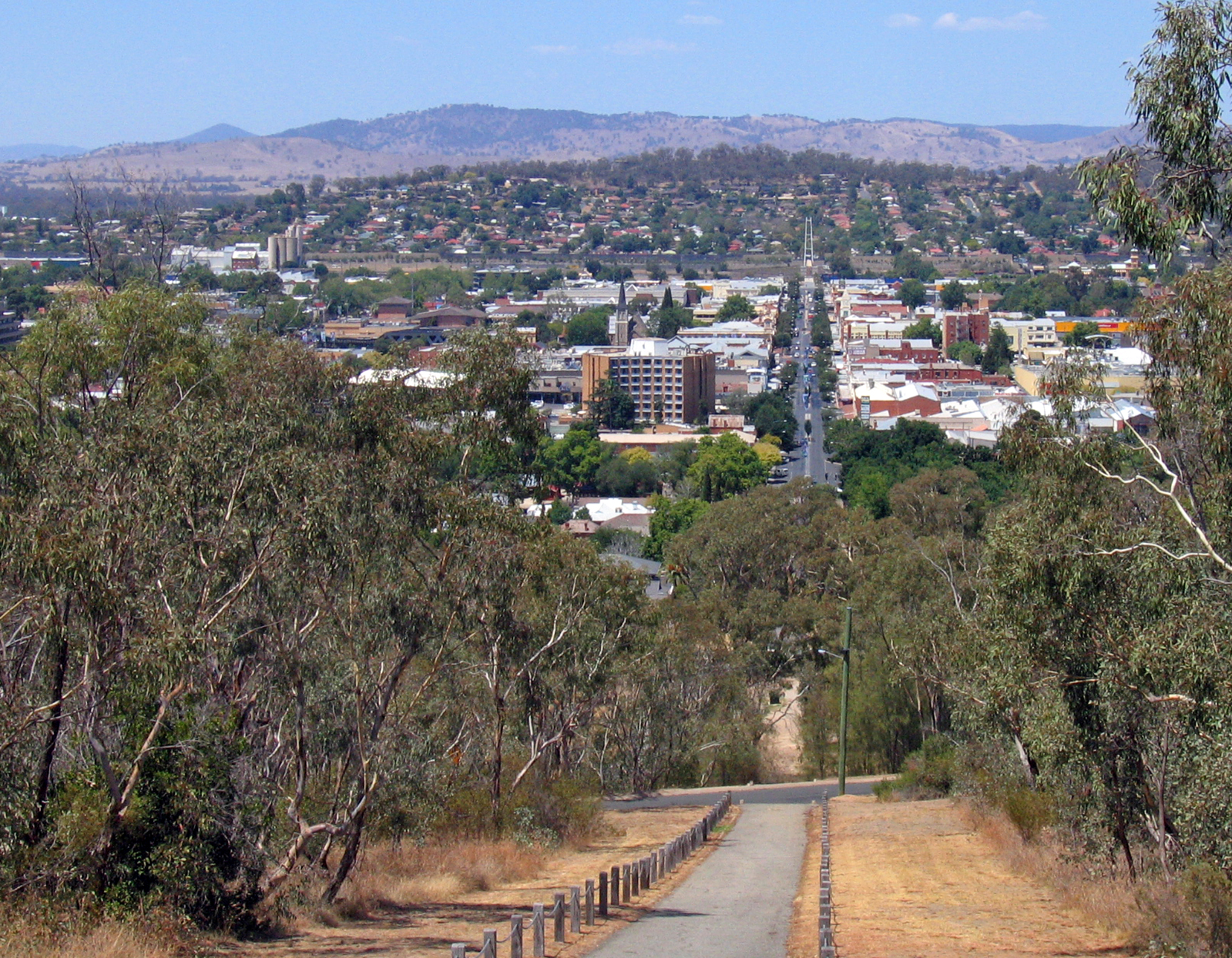 Over looking Albury, New South Wales.